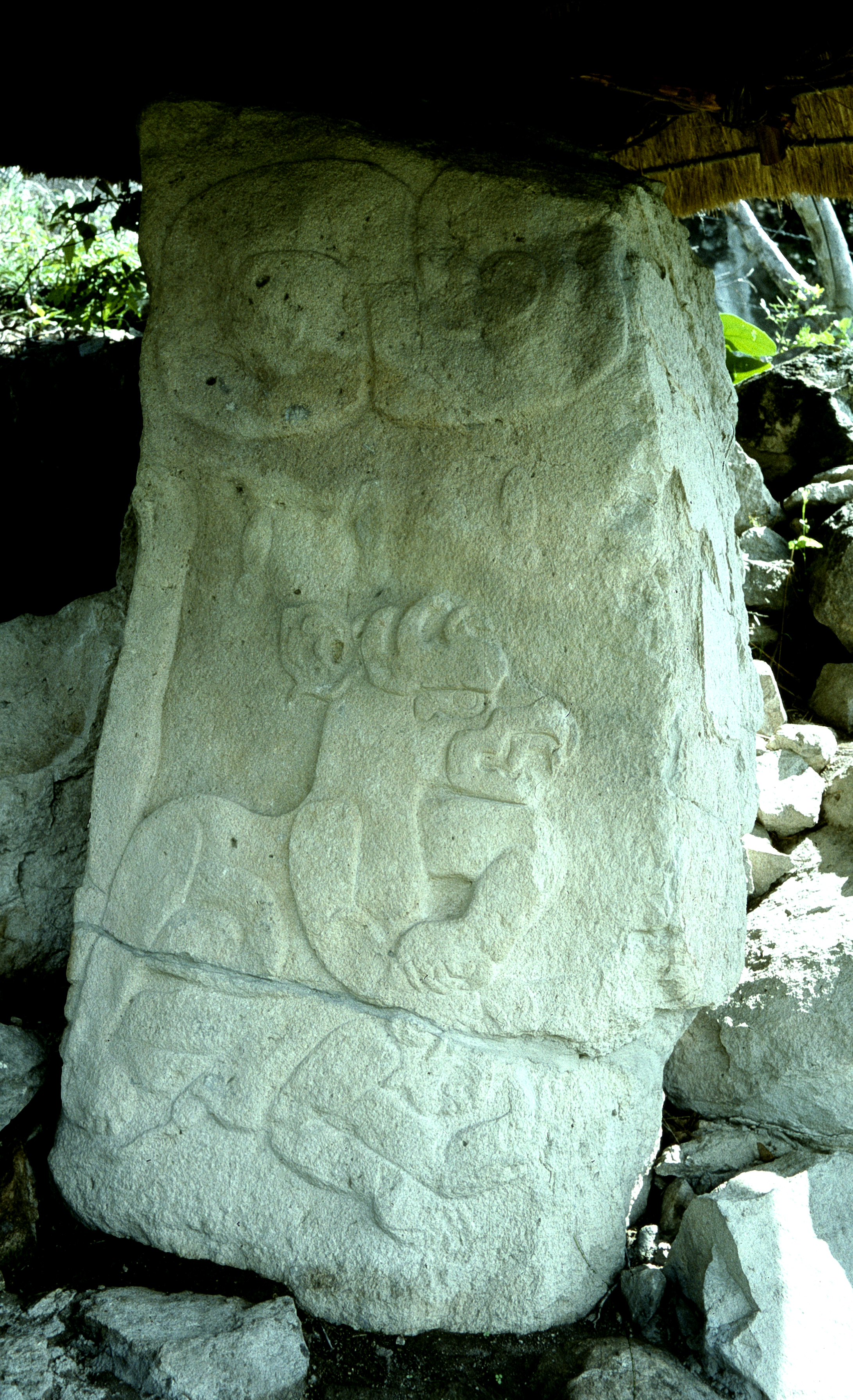 Chalcatzingo, Morelos, Mexico: Stela